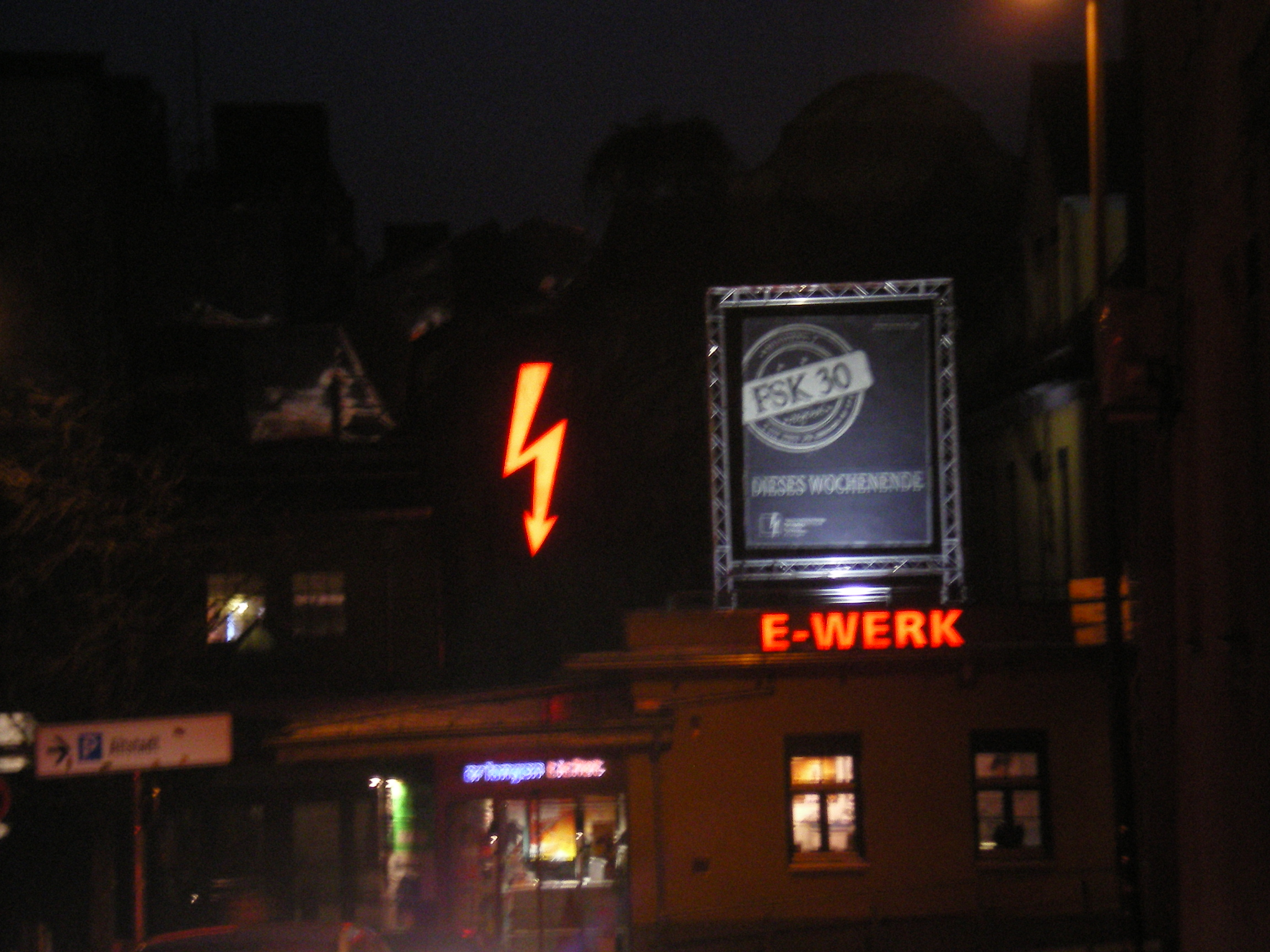 E-Werk in Elangen/Franconia